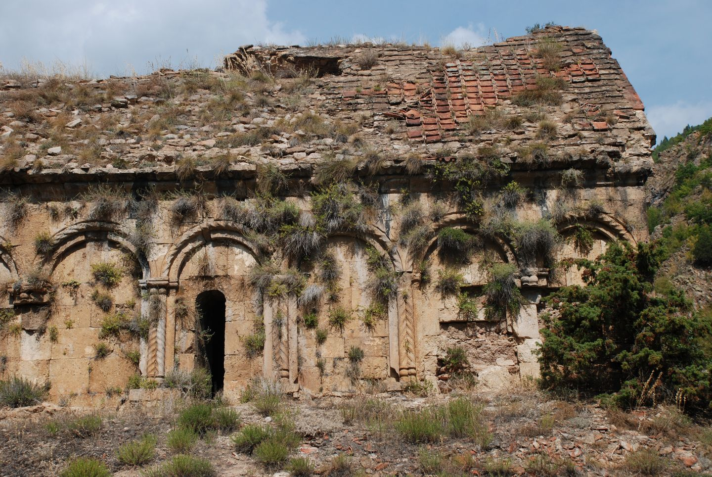 Dörtkilise, Artvin province